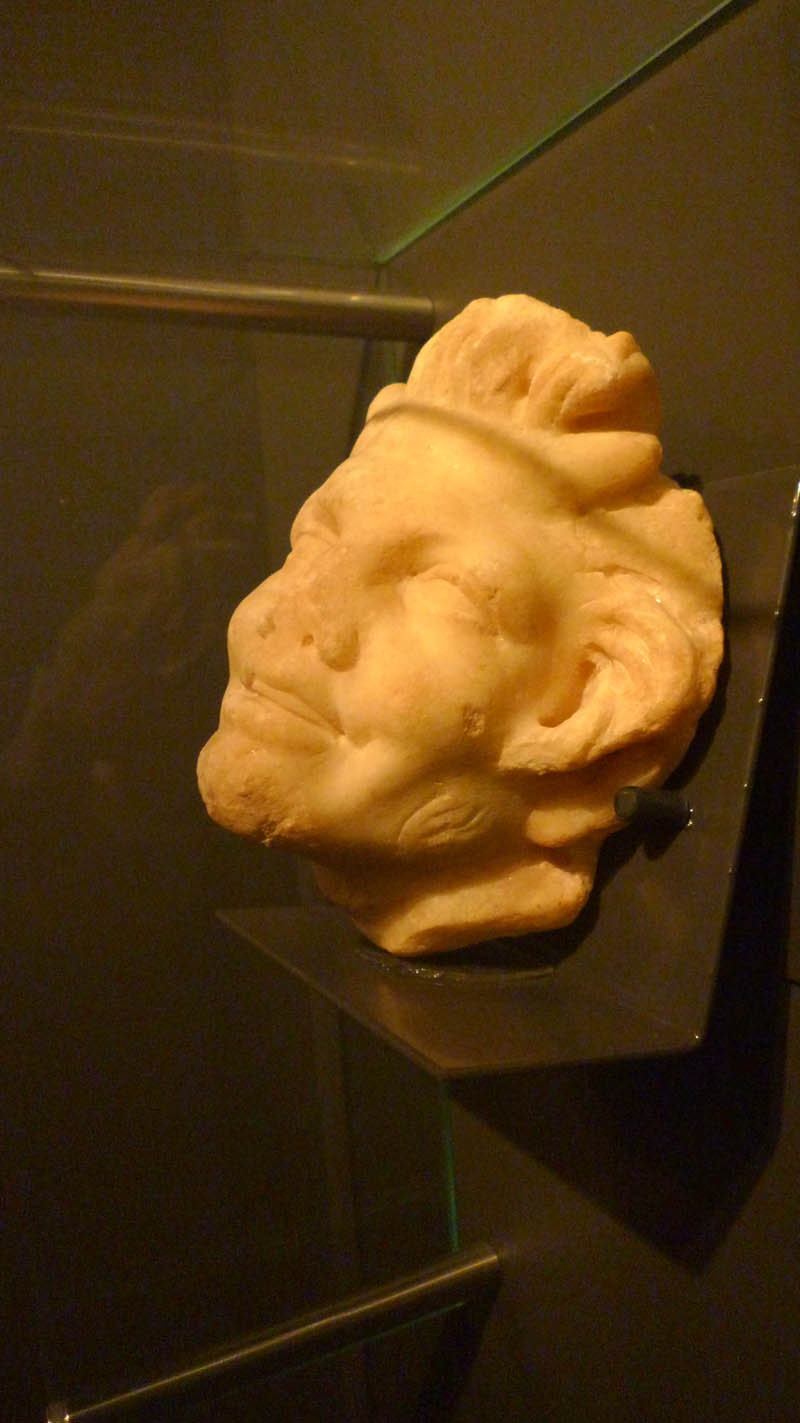 Head of a satyr found in the Roman Villa of El Paturro en Portmán (Cartagena-La Unión) in Spain. Archaeological museum of Murcia.